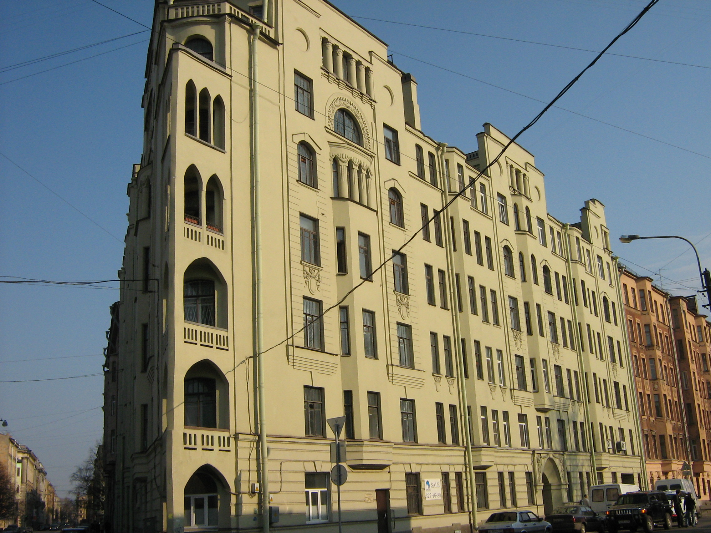 Ehrlich House, - 52, Ulitsa Lenina (Lenin Street), Saint-Petersburg, Russia. Architect A. Ehrlich, 1913.